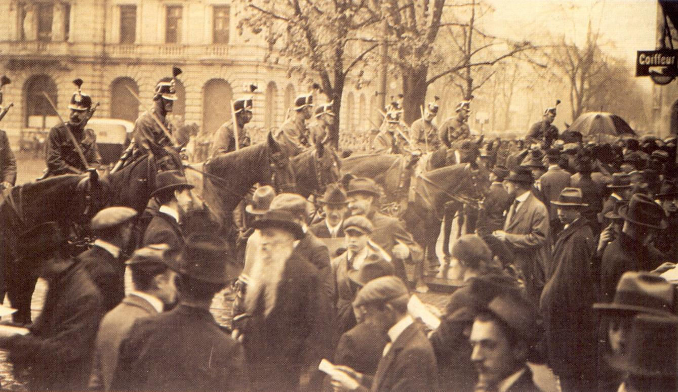 1918 general strike in Switzerland : picture taken on the Paradeplatz of Zurich with strikers fronting military cavalery